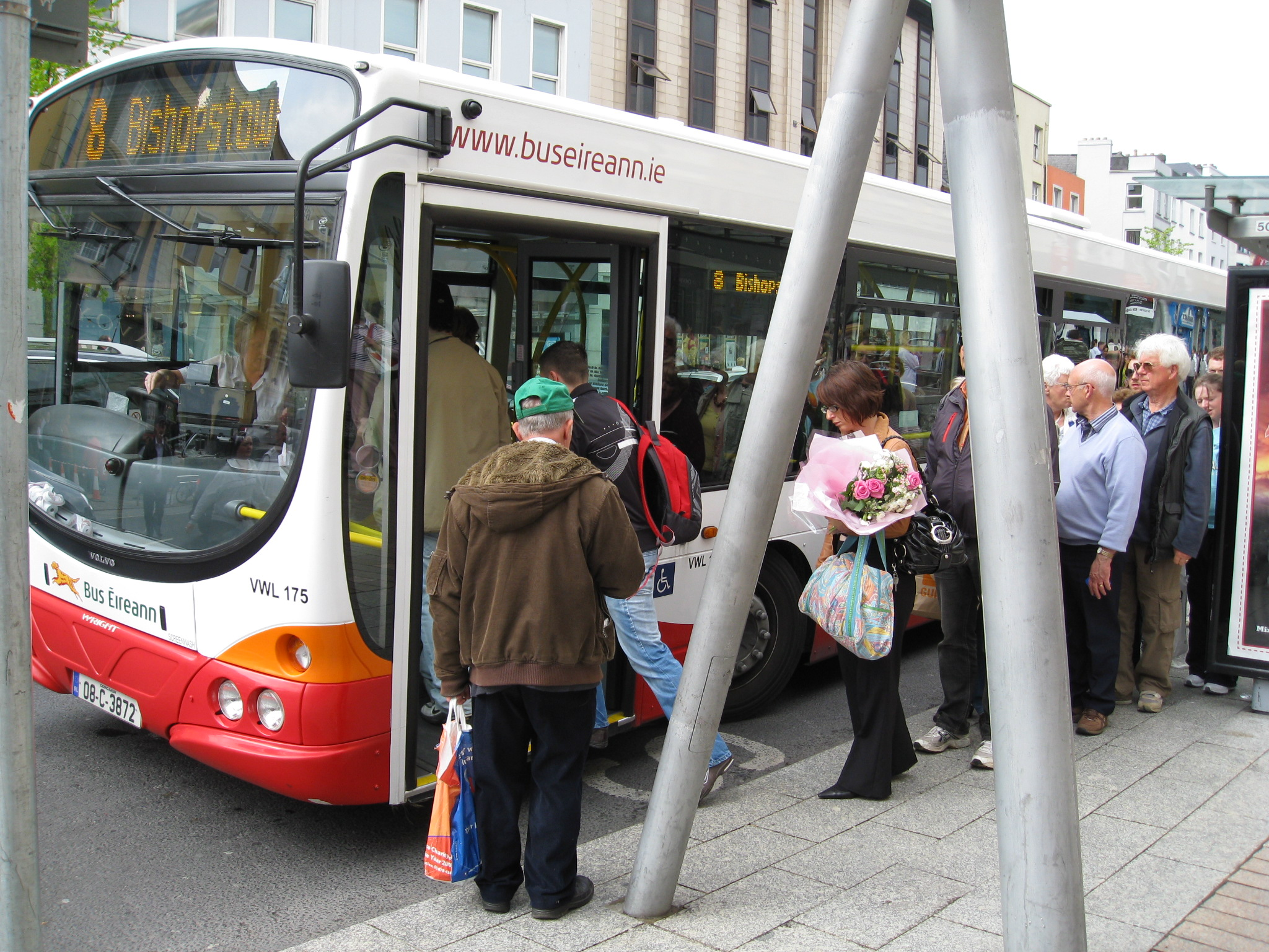 Bus Éireann bus in Cork